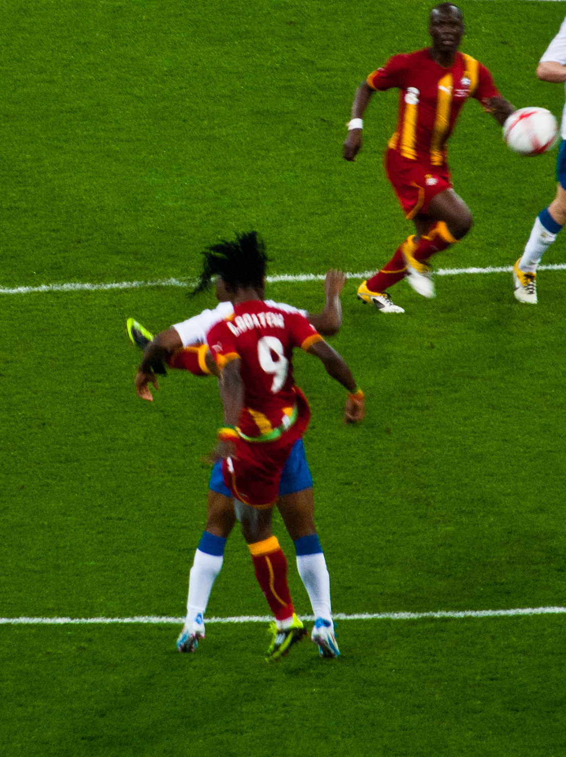 Photo taken by Cedric Ramirez with a Nikon D3000 camera. Emmanuel Agyemang-Badu; a professional footballer, playing for Ghana national football team against the England national football team.